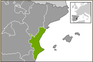 Map extent is fit to NUTS ES5 area (Eastern Spain).